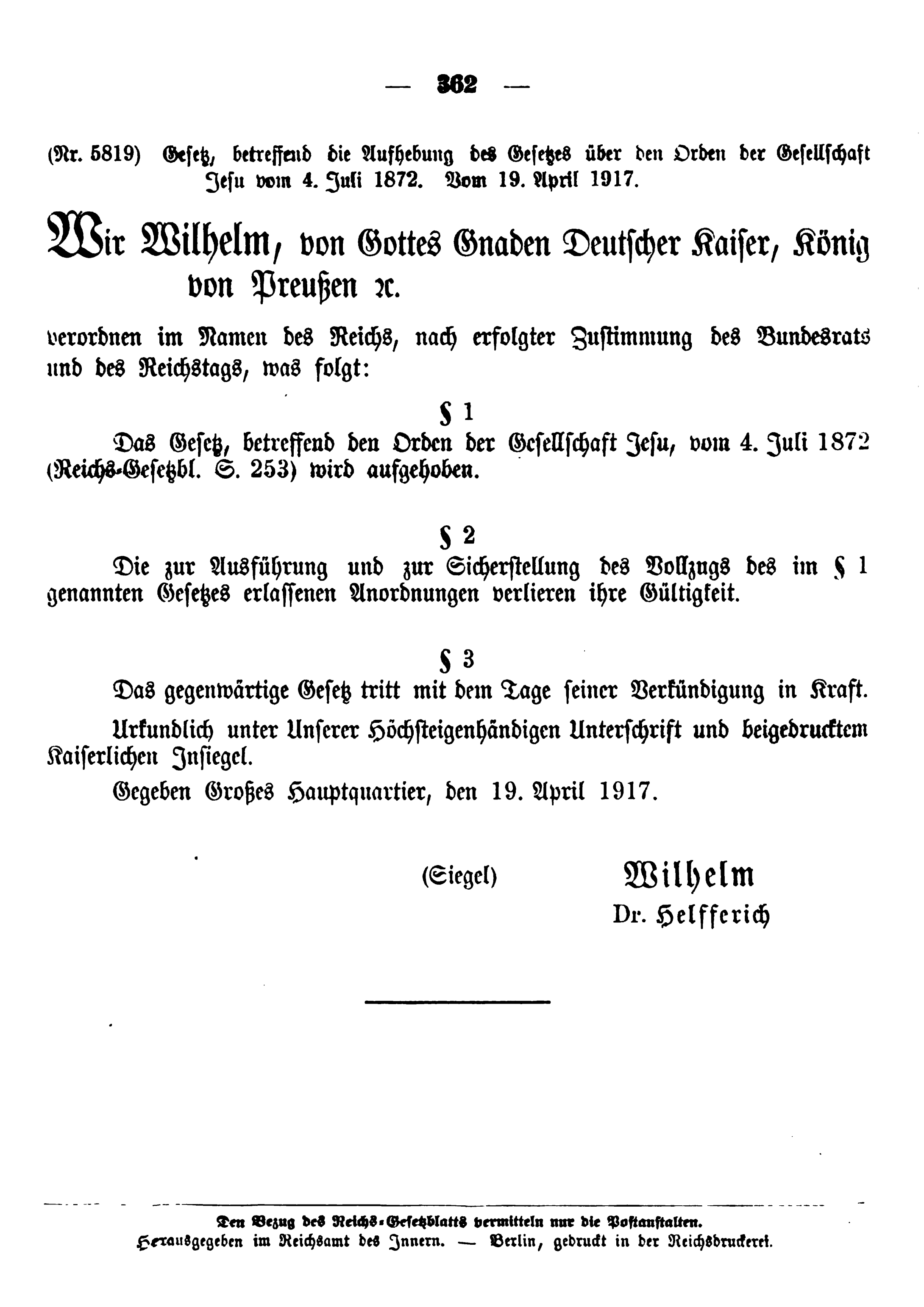 Scan from the Imperial Law Gazette of Germany, 1917